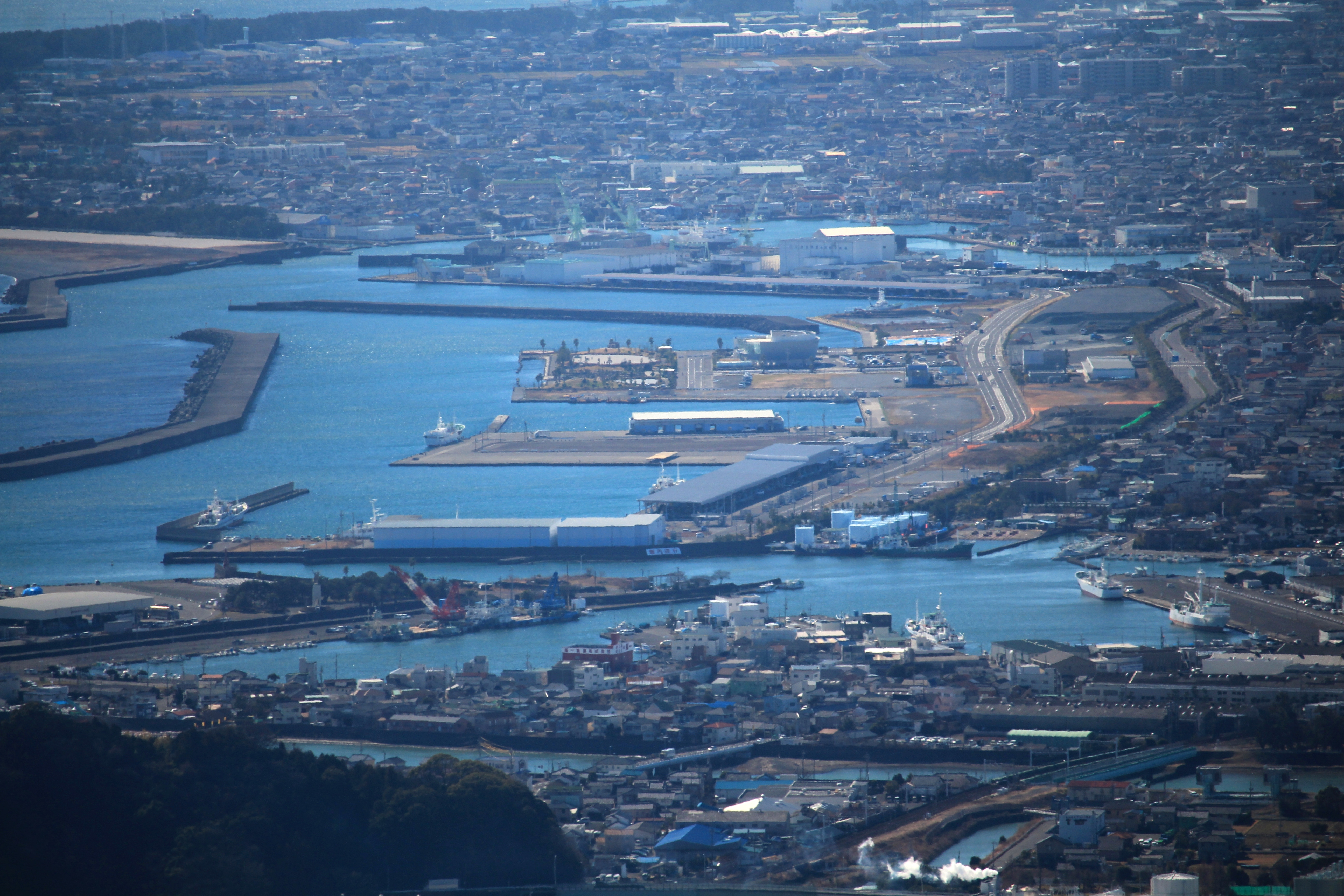 Port of Yaizu seen from Mount Mankan in Shizuoka prefecture, Japan.